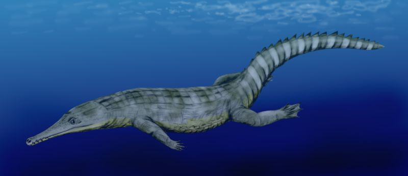 Guarinisuchus munizi, a dyrosaurid crocodylomorph from the early paleocene of Brazil, after Barbosa, Kellner & Viana (2008), digital